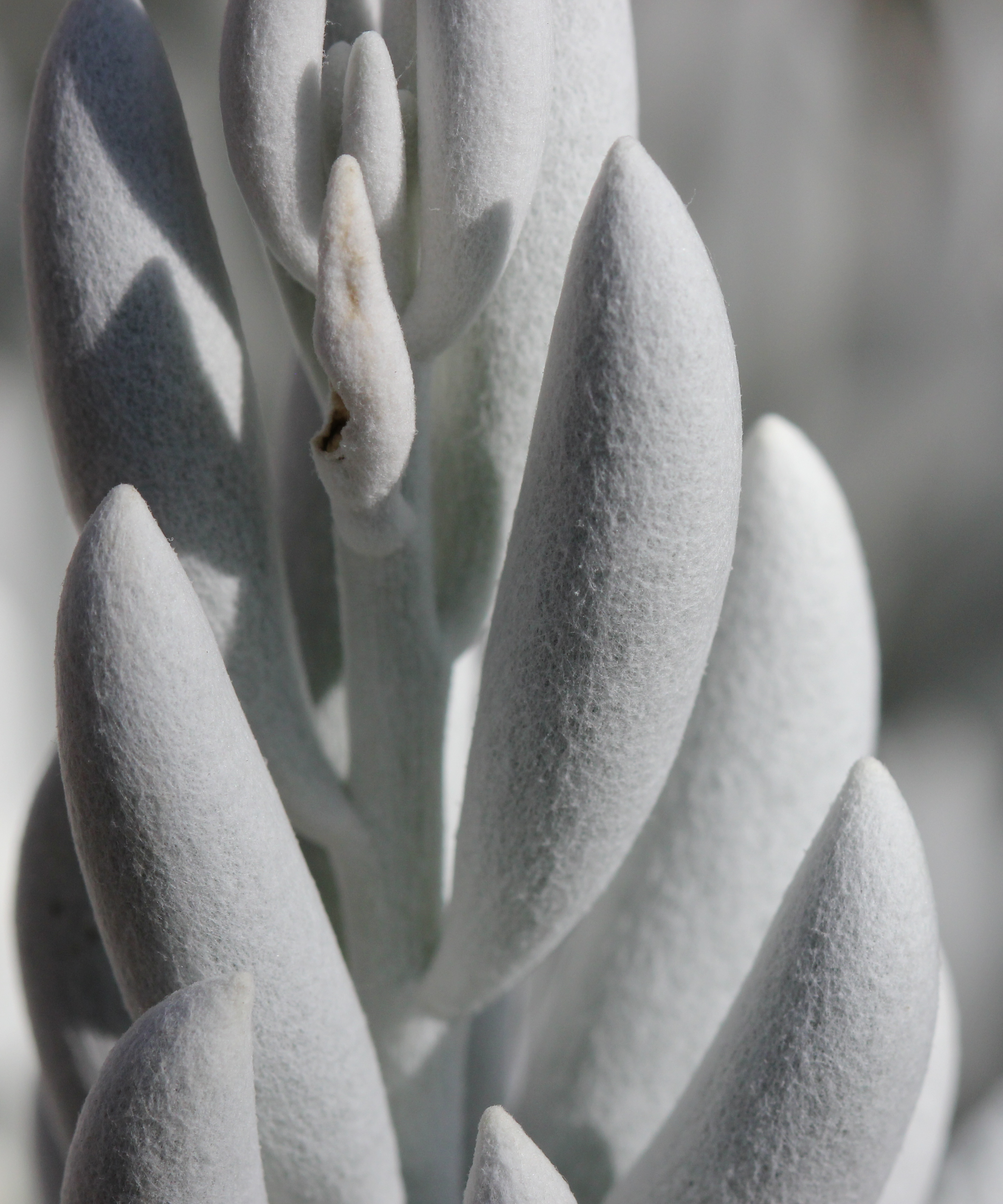 Senecio haworthii has felted leaves. The felt is so thick and strong that it can be peeled off, dried and used as tinder; hence Afrikaans "tontelbos"